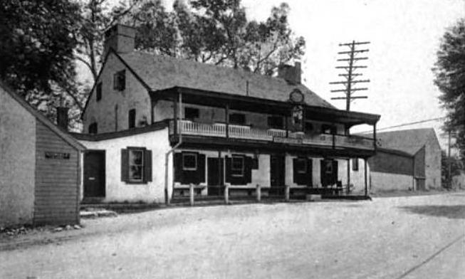 1919 photograph of King of Prussia Inn prior to restoration and relocation.